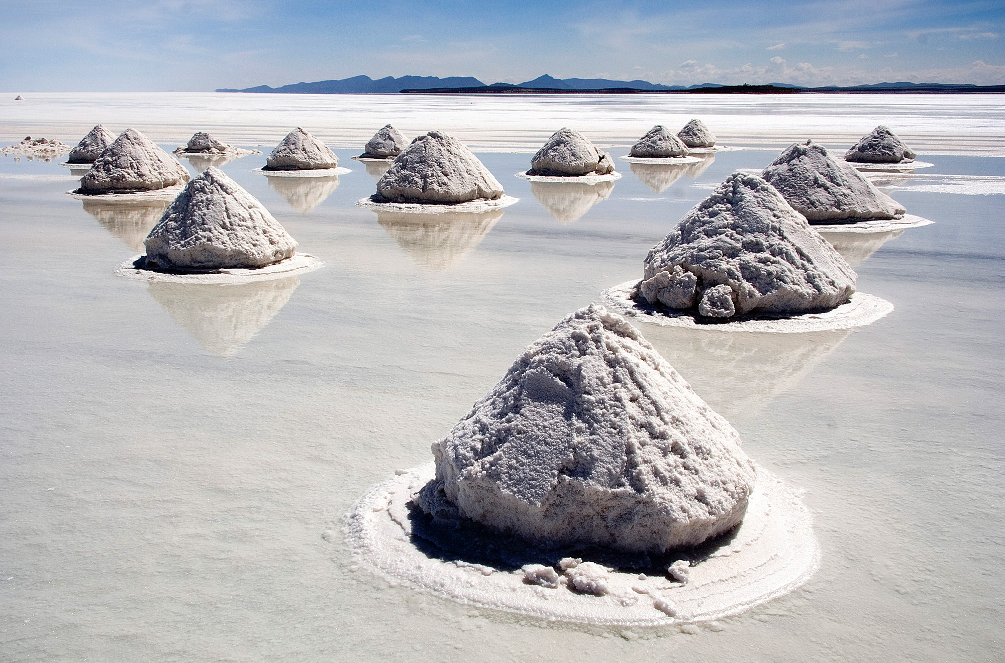 Salt mounds in Salar de Uyuni, Bolivia. The Salar de Uyuni is the world's largest (12 000 km²) and highest (3 700 m) salt flat, ca. 25 times as large as the Bonneville Salt Flats. It's the remnant of a prehistoric lake surrounded by mountains without drainage outlets. Salt is harvested in the traditional method: the salt is scraped into small mounds for water evaporation and easier transportation, dried over fire, and finally enriched with iodine.